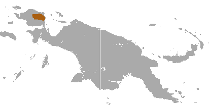 Vogelkop Ringtail Possum (Pseudochirulus schlegeli) range